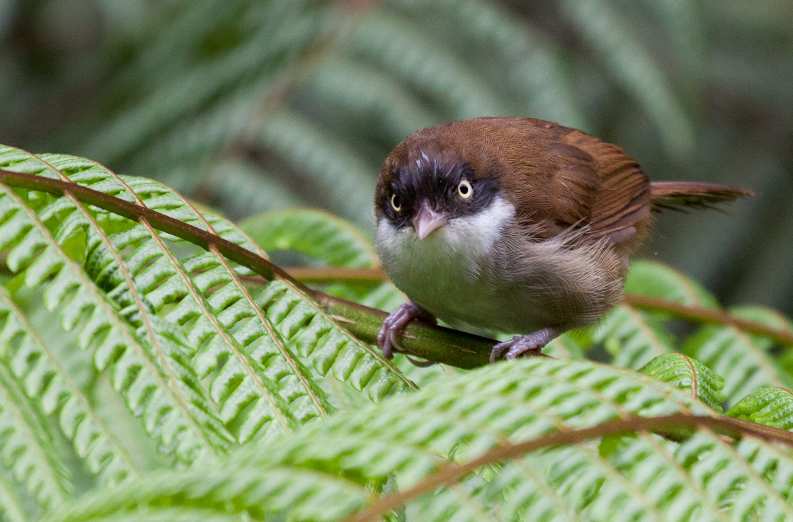 A Dark-fronted Babbler at Sinharaja Forest Reserve, Sri Lanka.